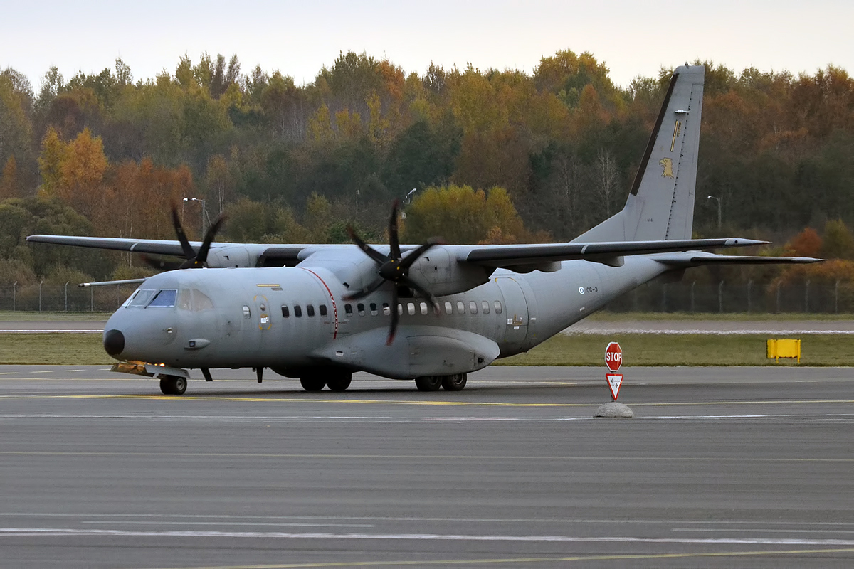 Finnish Air Force, CC-3, CASA C-295M